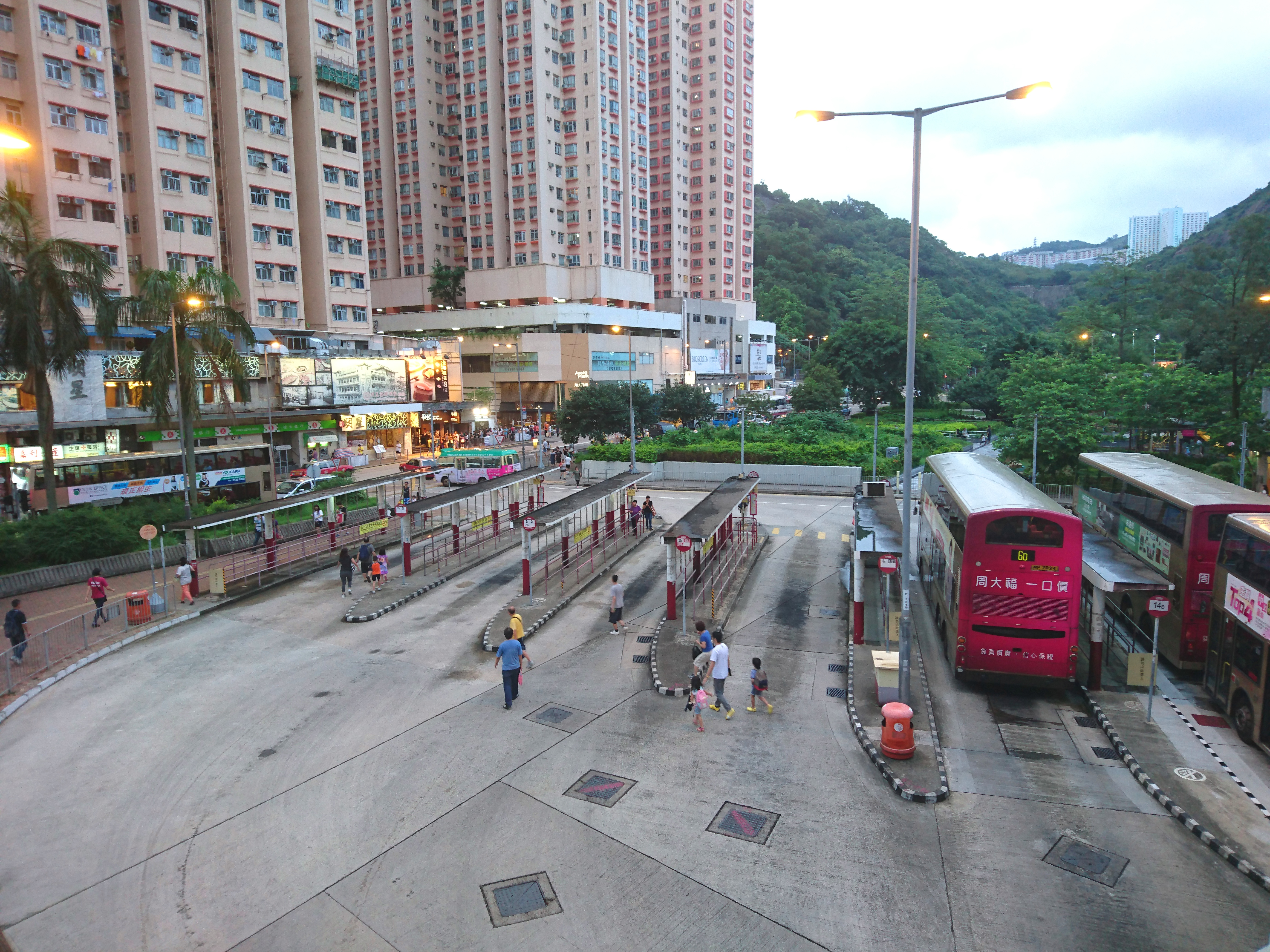 Ngau Tau Kok Bus Terminus in 2016